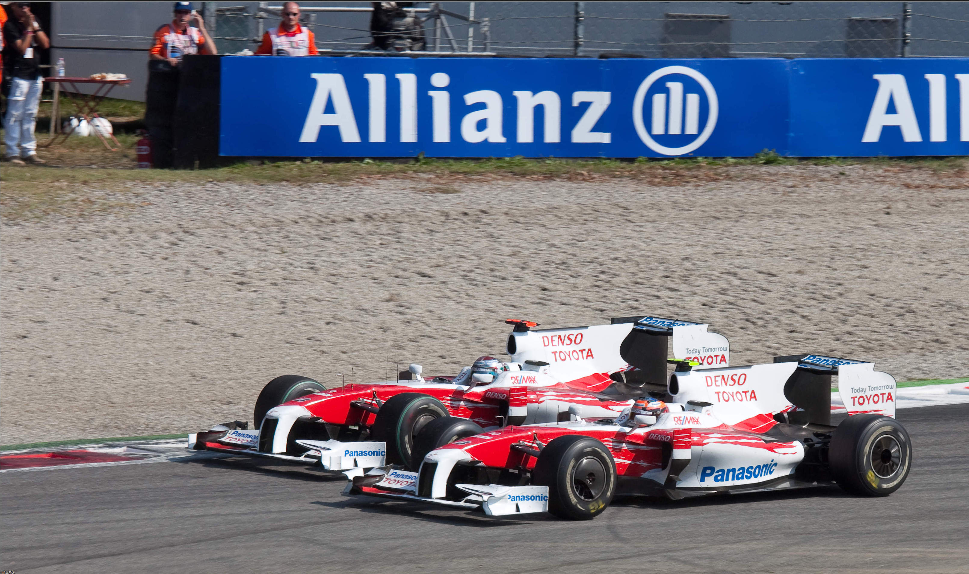 Toyota F1 drivers Jarno Trulli and Timo Glock race wheel-to-wheel at the 2009 Italian Grand Prix.